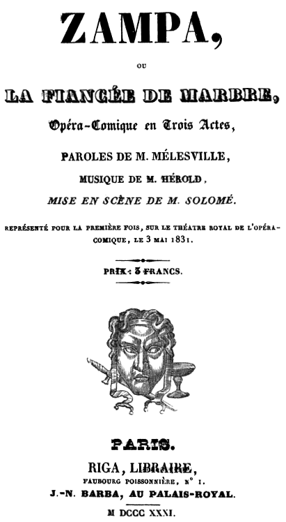 Ferdinand Hérold - Zampa - titlepage of the libretto, Paris 1831